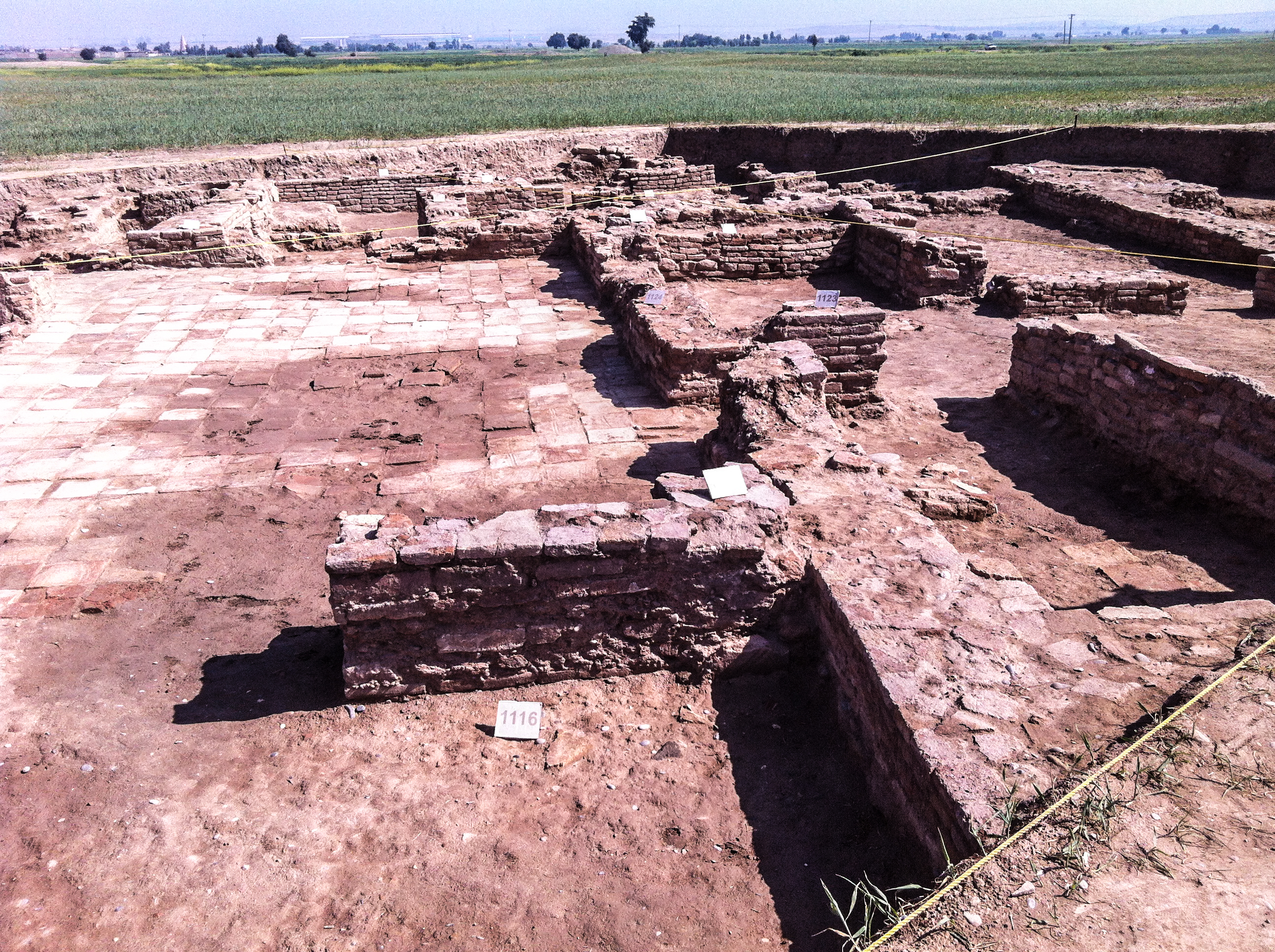 Ancient City of Gandhi Shapour